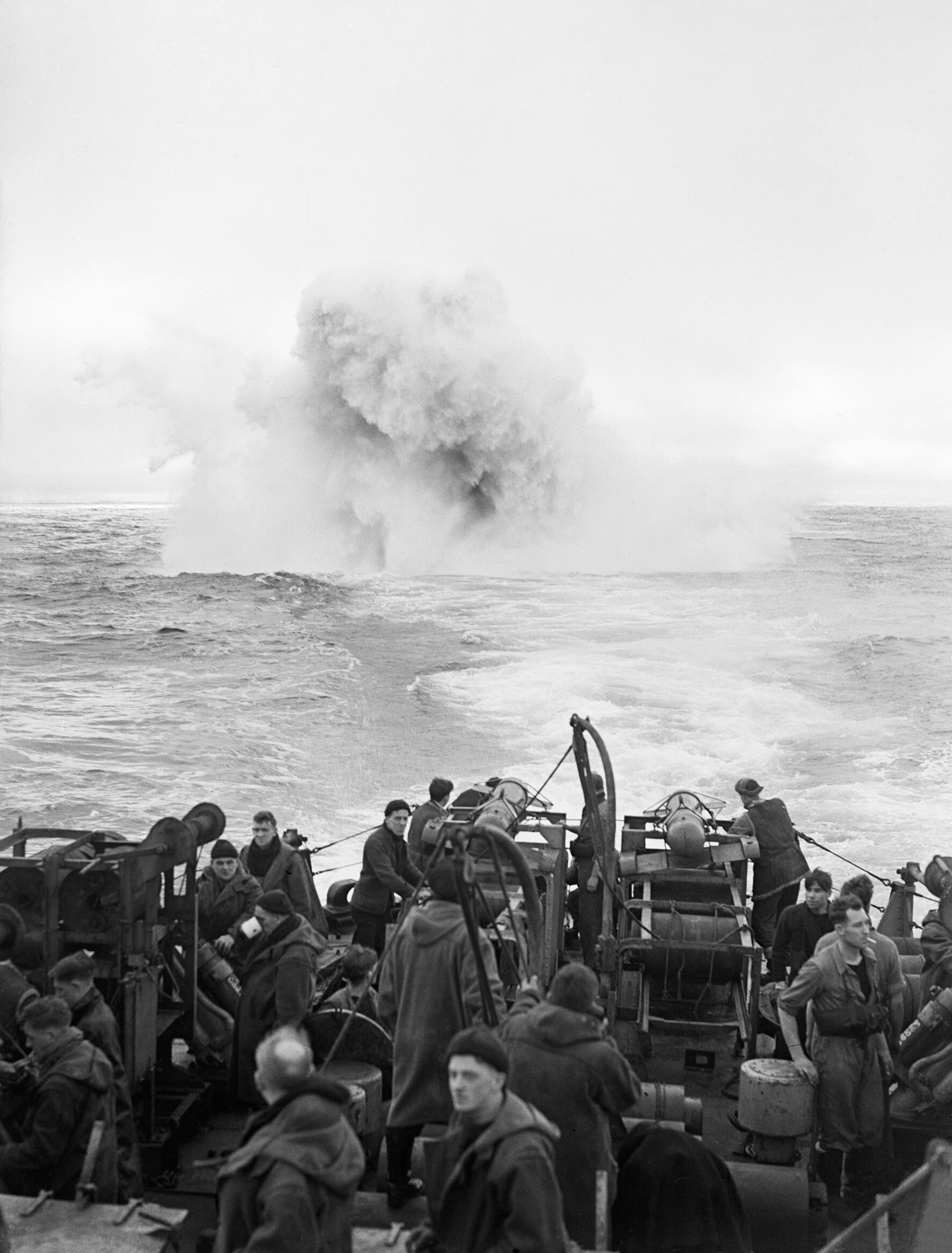 Depth charges explode astern of HMS STARLING of the 2nd Escort Group in the Atlantic, January 1944. A little later and the STARLING goes into action again. This shallow pattern of depth charges brought the group's sixth U-boat to the surface.